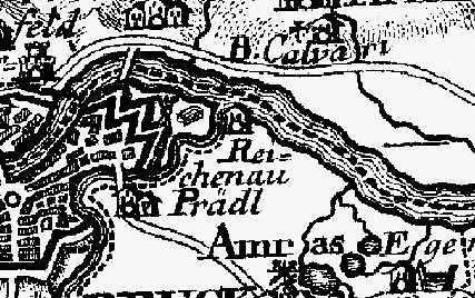 Eastern part of Innsbruck (Reichenau, Pradl, Amras) in the Atlas Tyrolensis by Peter Anich and Blasius Hueber (1774)